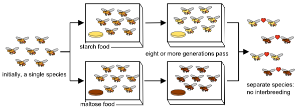 An experiment demonstrating allopatric speciation in the fruit fly (Drosophila pseudoobscura) conducted by Diane Dodd. A single population of flies was divided into two, with one of the populations fed with starch-based food and the other with maltose-based food. After the populations had diverged over many generations, the groups were again mixed; it was observed that the flies would mate only with others from their adapted population. Dodd, D.M.B. (1989) "Reproductive isolation as a consequence of adaptive divergence in Drosophila pseudoobscura." Evolution 43:1308–1311. Drawn in Inkscape by User:BenB4 from Ilmari Karonen's Image:Drosophila speciation.svg, based on from